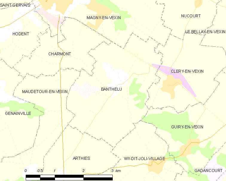 Map of French municipality Banthelu